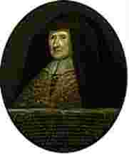 Portrait of a lady thought to have been the Countess of Desmond. The picture was painted in the 18th. century.